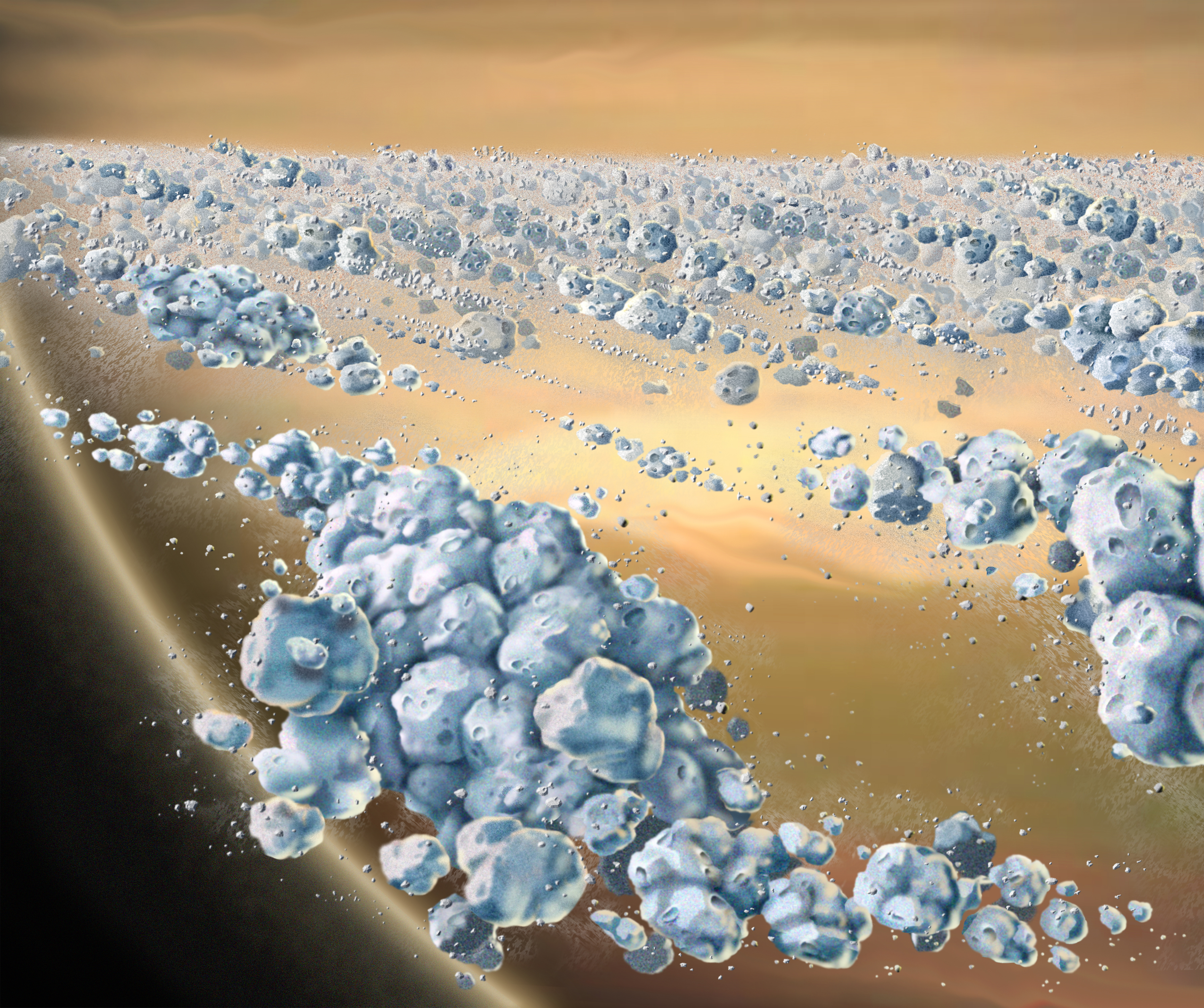 This is an artist concept of a close-up view of Saturn's ring particles. The planet Saturn is seen in the background (yellow and brown). The particles (blue) are composed mostly of ice, but are not uniform. They clump together to form elongated, curved aggregates, continually forming and dispersing. The space between the clumps is mostly empty. The largest individual particles shown are a few meters (yards) across.